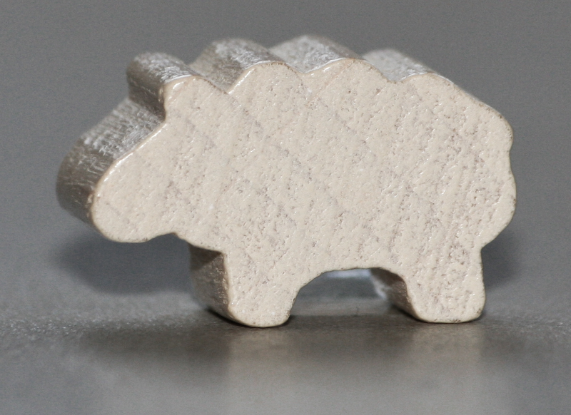 Animal from the board game Agricola